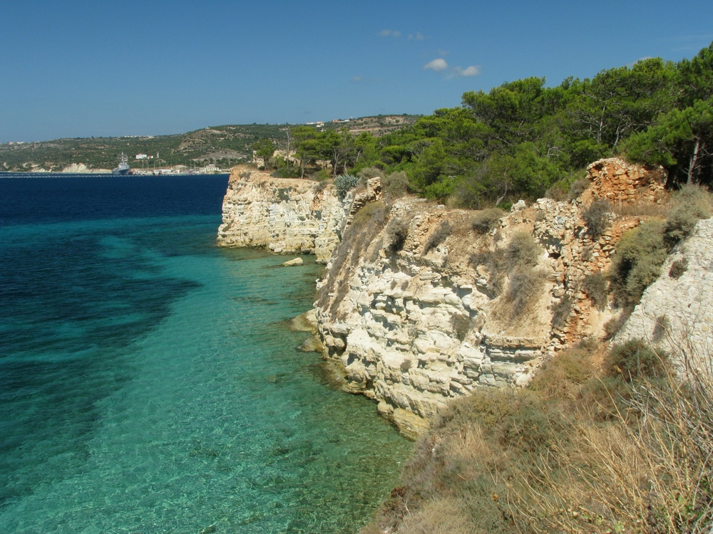 The cliff of Souda island viewed from the walls of "Linguetta".